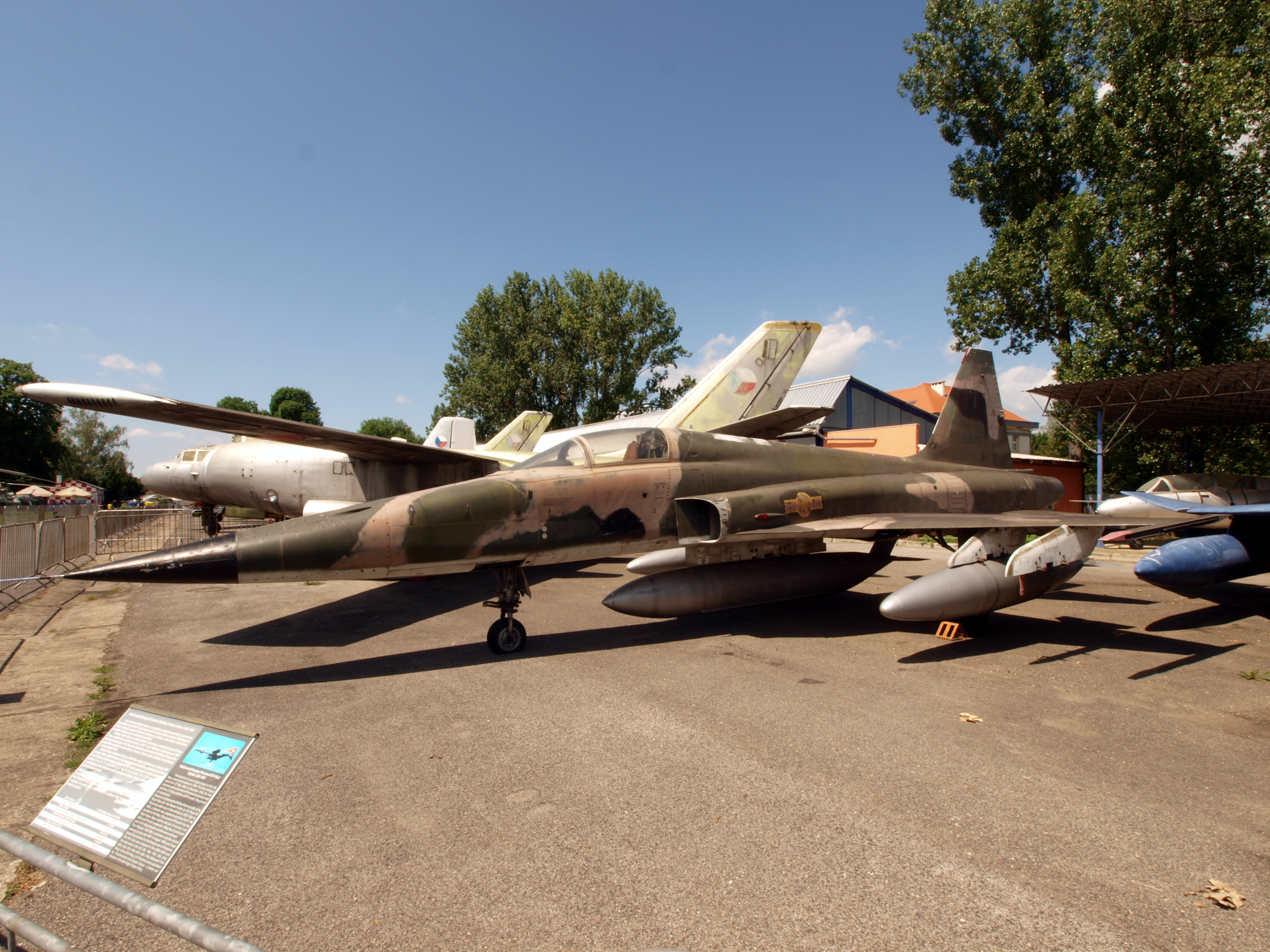 Northrop F-5E Tiger II. Photograph taken without a tripod (was not allowed!).